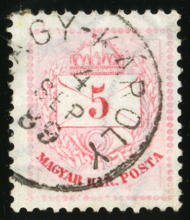 Kingdom of Hungary 5 kr stamp, issue 1881, cancelled NAGY-KAROLY in 1889.